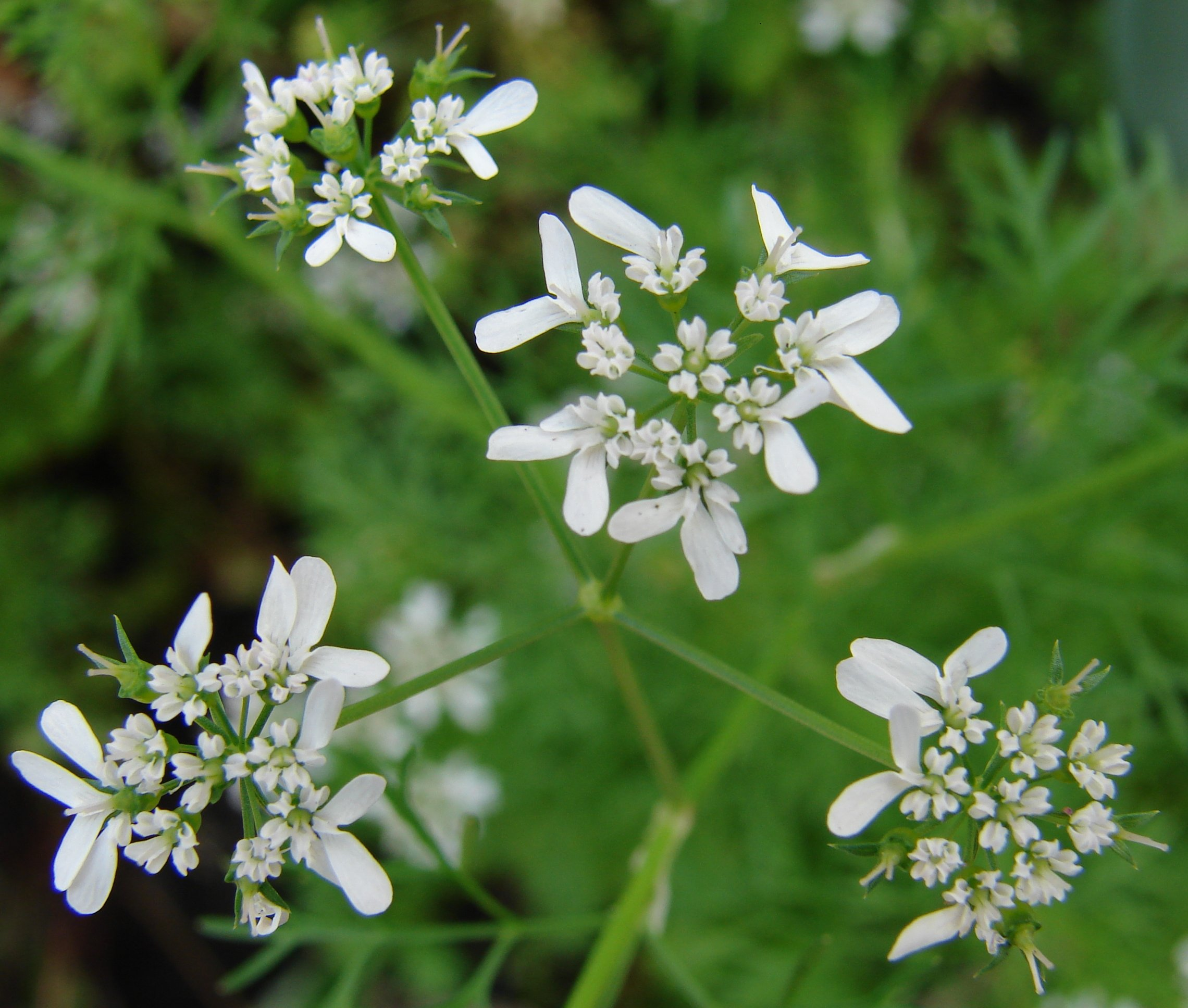 Coriandrum sativum flower Coentro flor